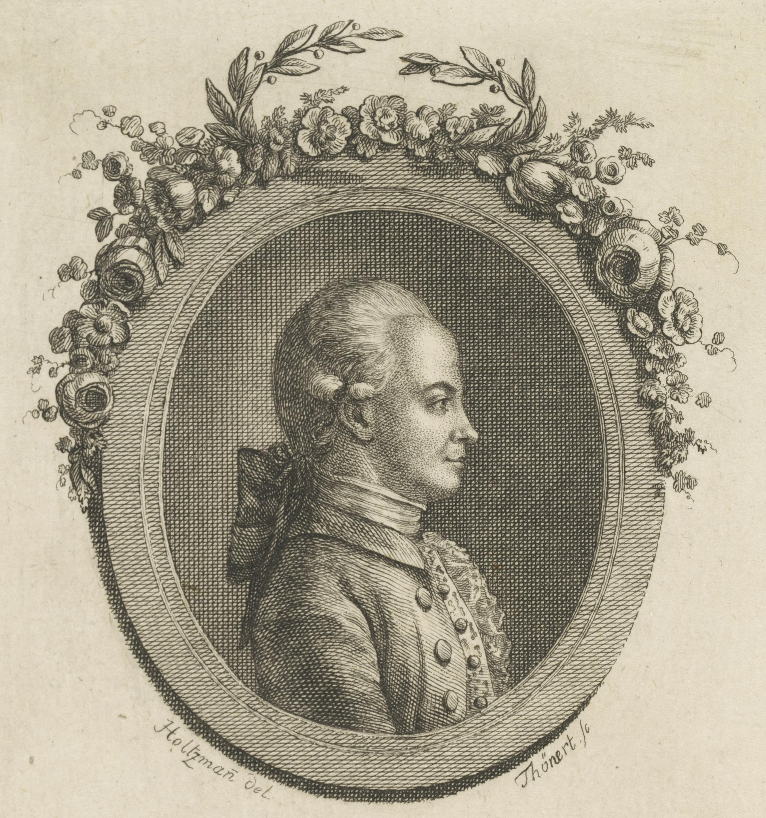 Depicted person: Joseph Schuster (composer)